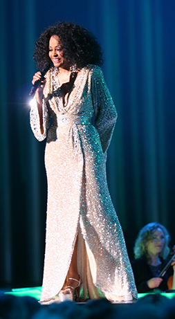 Nobel Peace prize Concert 2008, Oslo Spektrum, Diana Ross